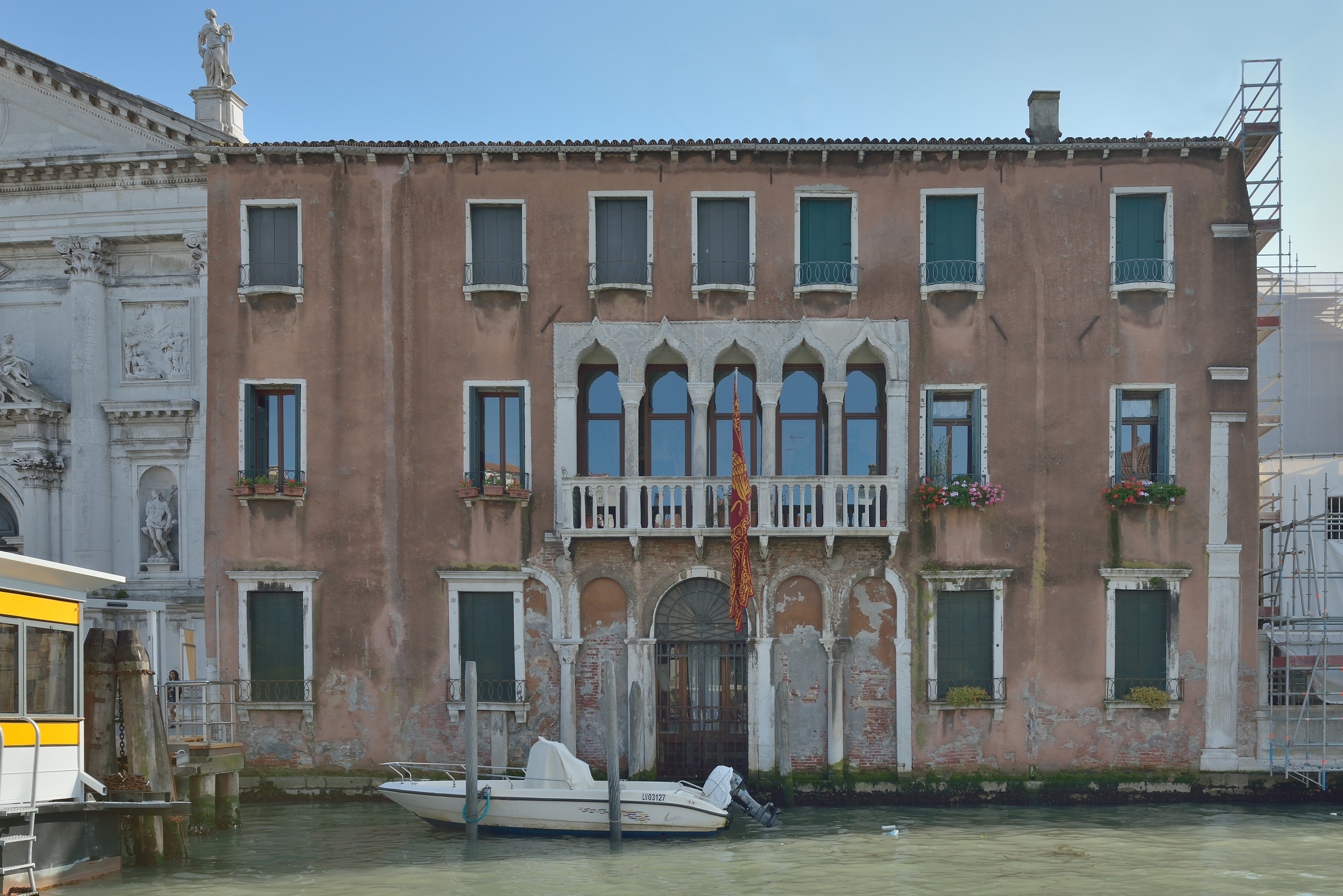 Palace Palazzo Priuli Bon in Venice. Facade on Grand Canal.